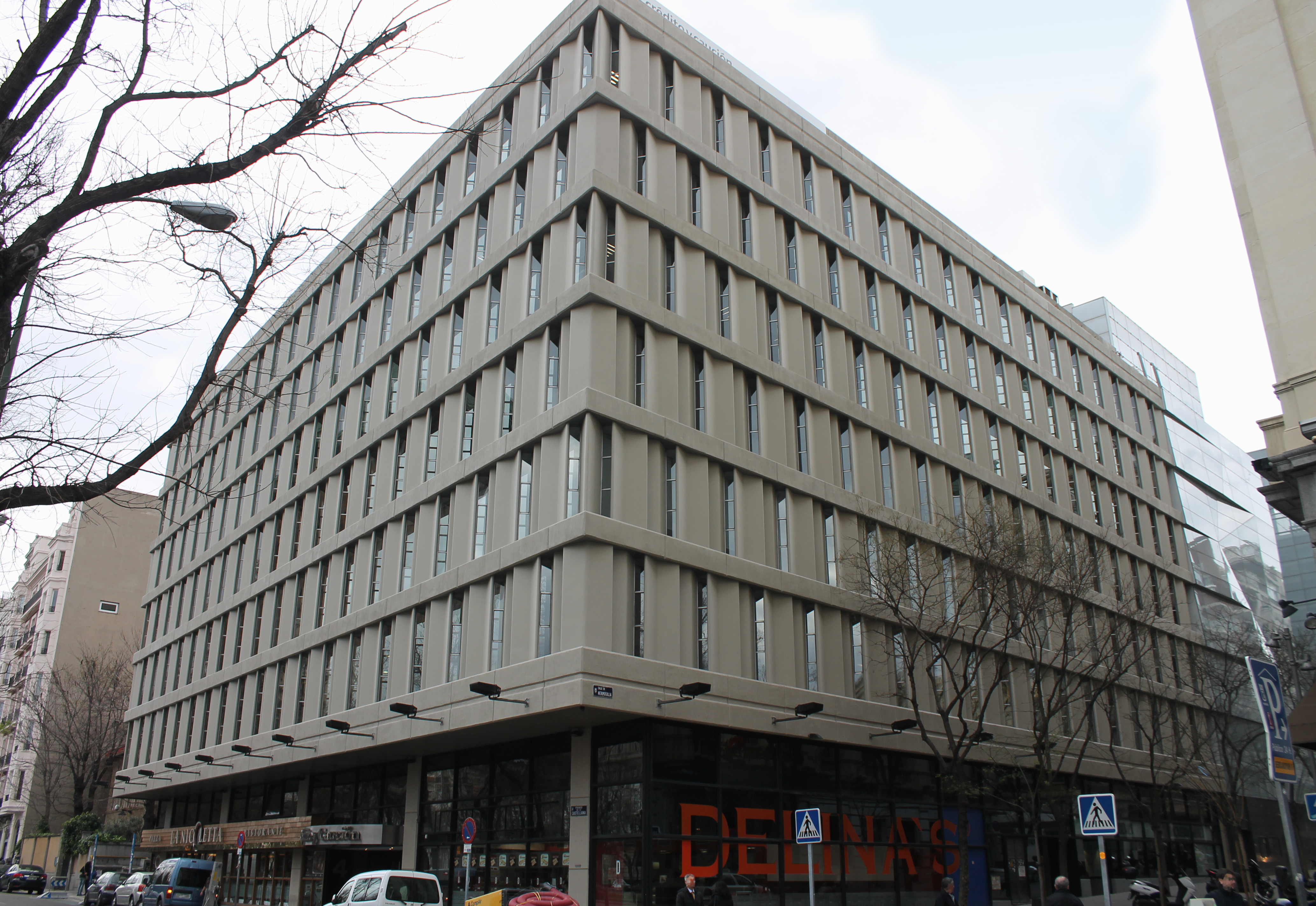 Façade of the former IBM building at 4th Paseo de la Castellana (avenue) in Salamanca district in Madrid (Spain).